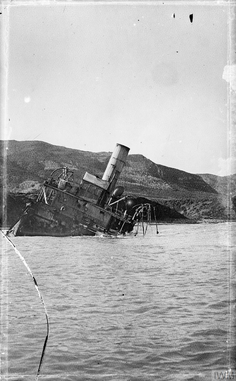 Photograph of Anchusa class sloop HMS CANDYTUFT sinking after a U-boat attack.